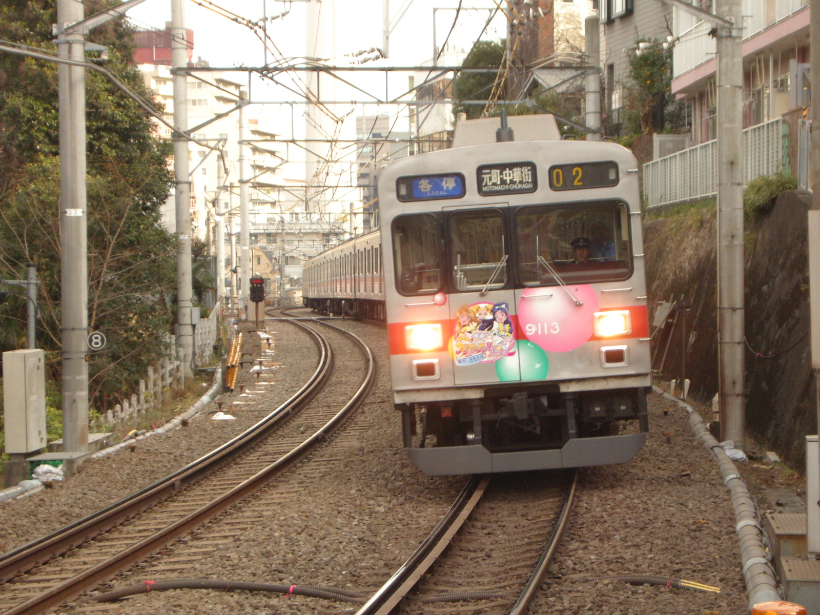 Tokyu Railway Series 9000 (Pretty Cure Train)